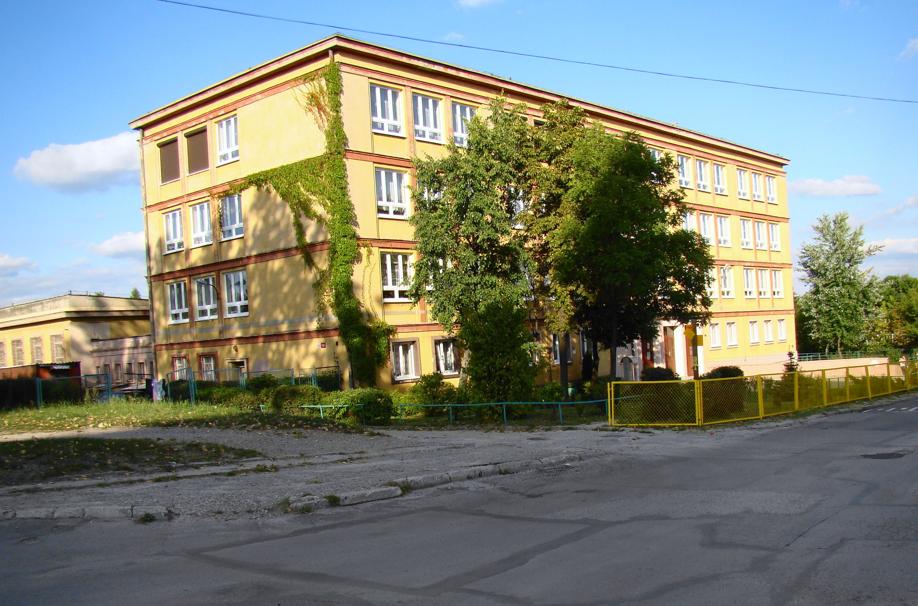 Elementary School number 18, ul. Chrobrego, Czarnów, Kielce